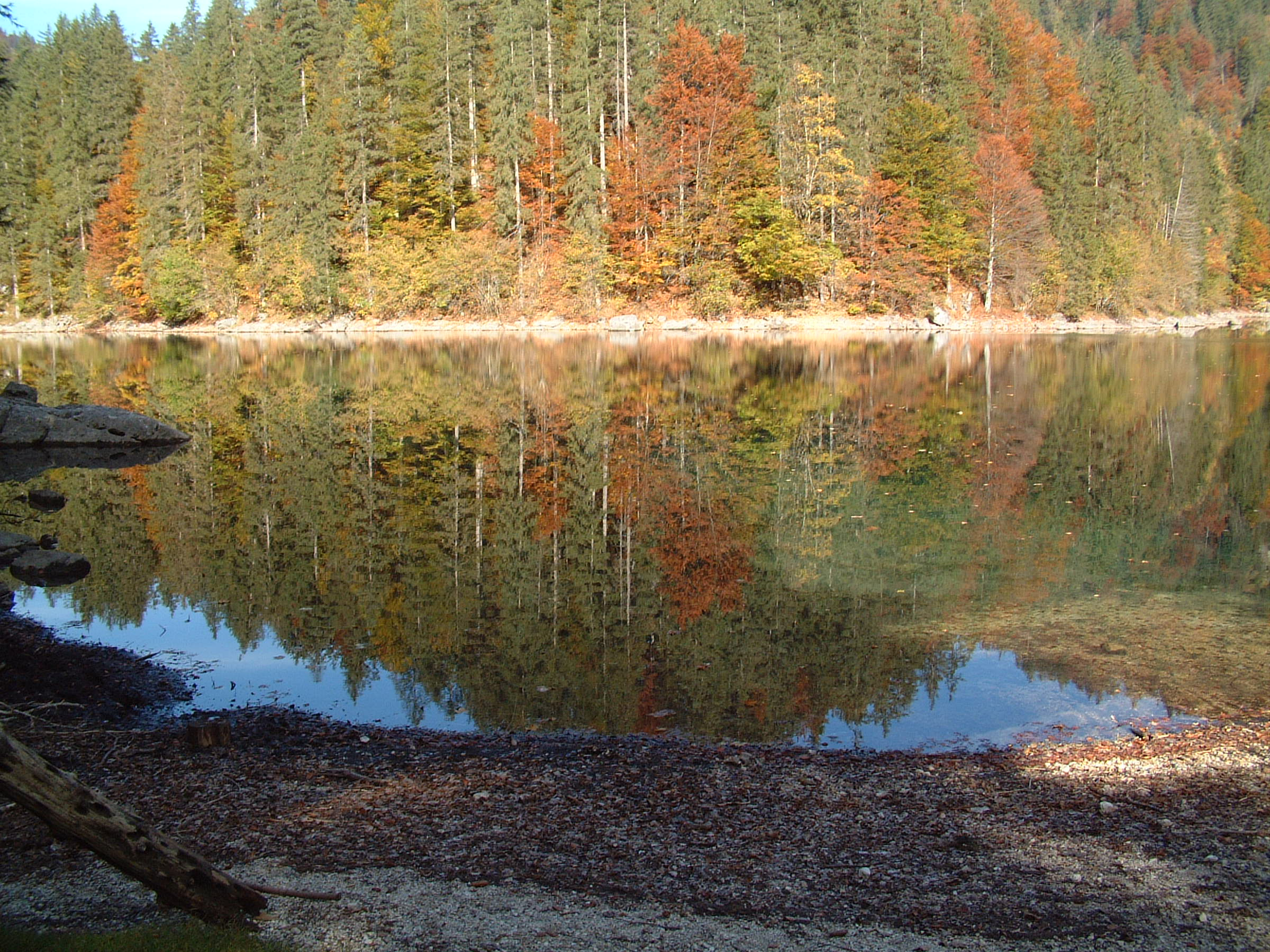 Kleiner Ödsee (Salzkammergut, Upper Austria)